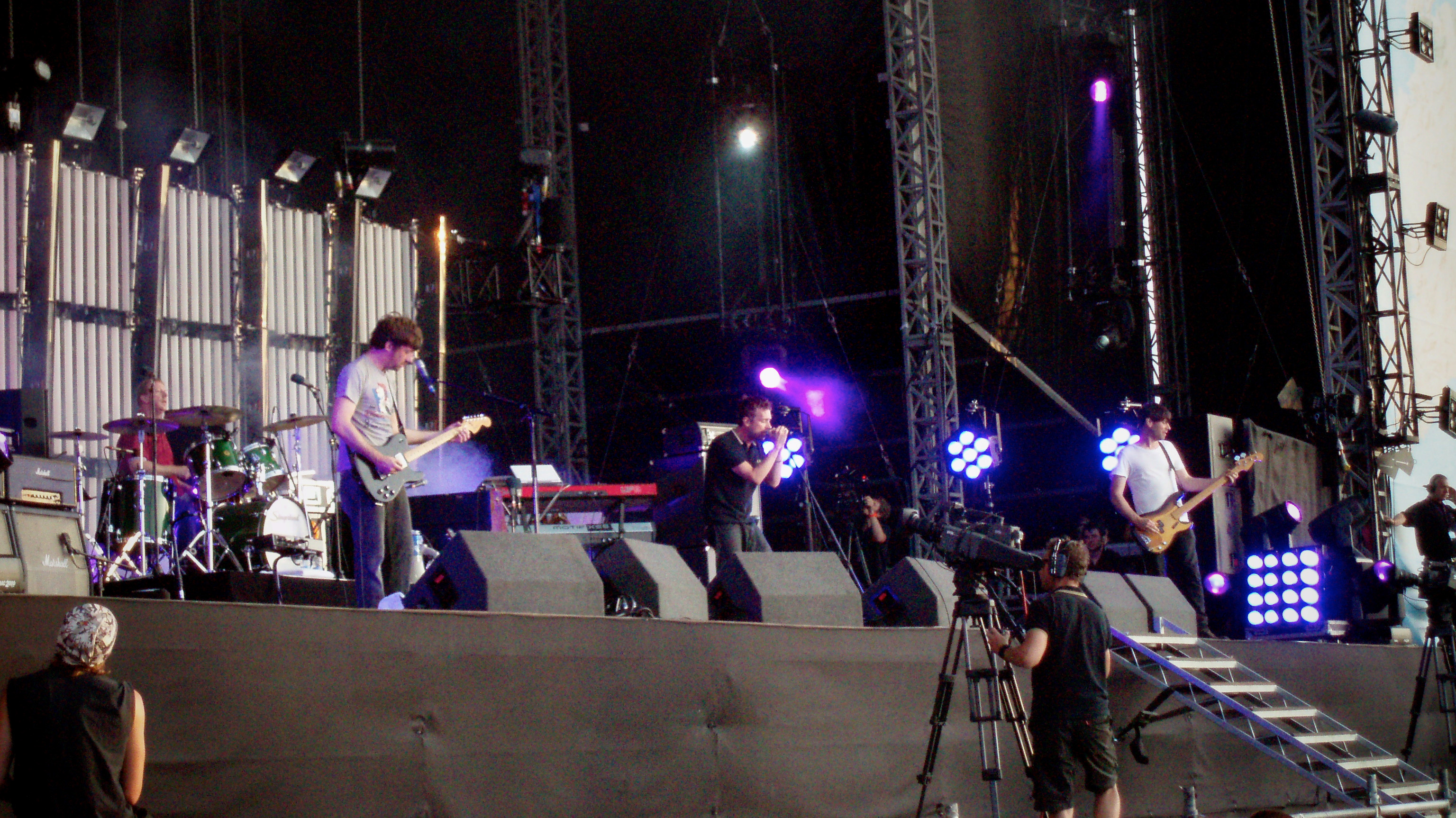 Hyde Park, 3rd July 2009